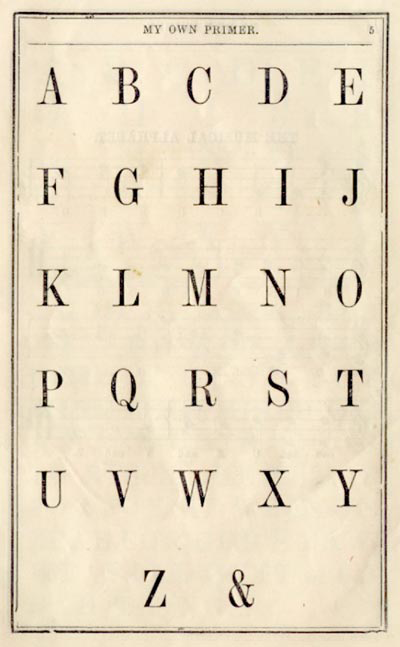 Alphabet from My Own Primer, an 1857 book by John Pym Carter